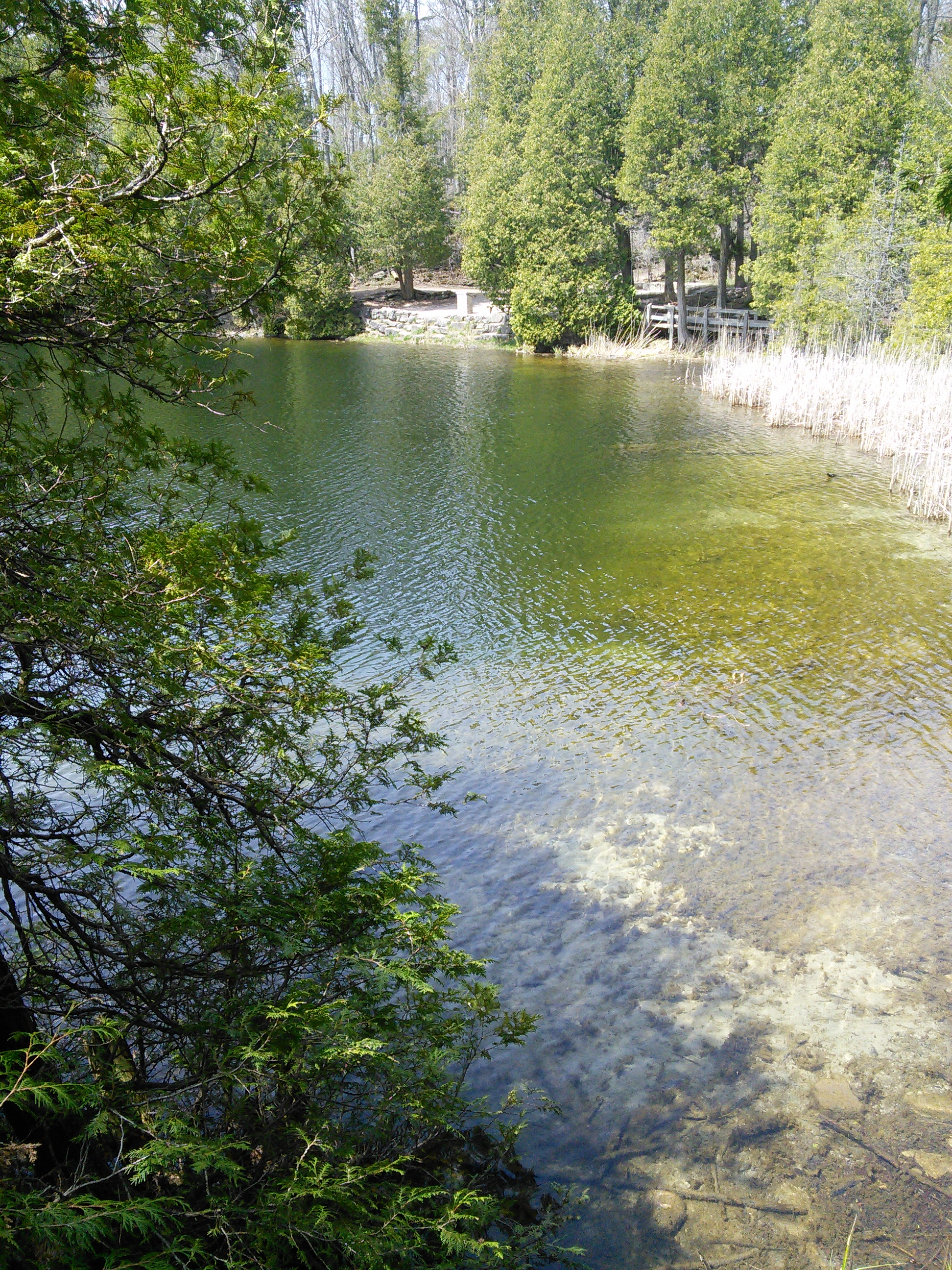 Crawford Lake Conservation Area Ontario, Canada